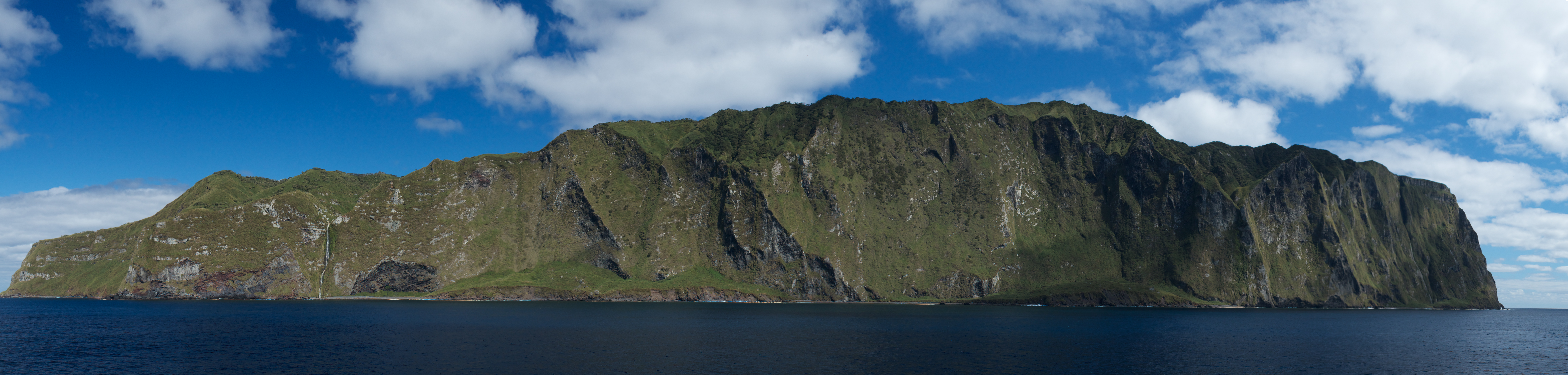 Inaccessible Island panorama